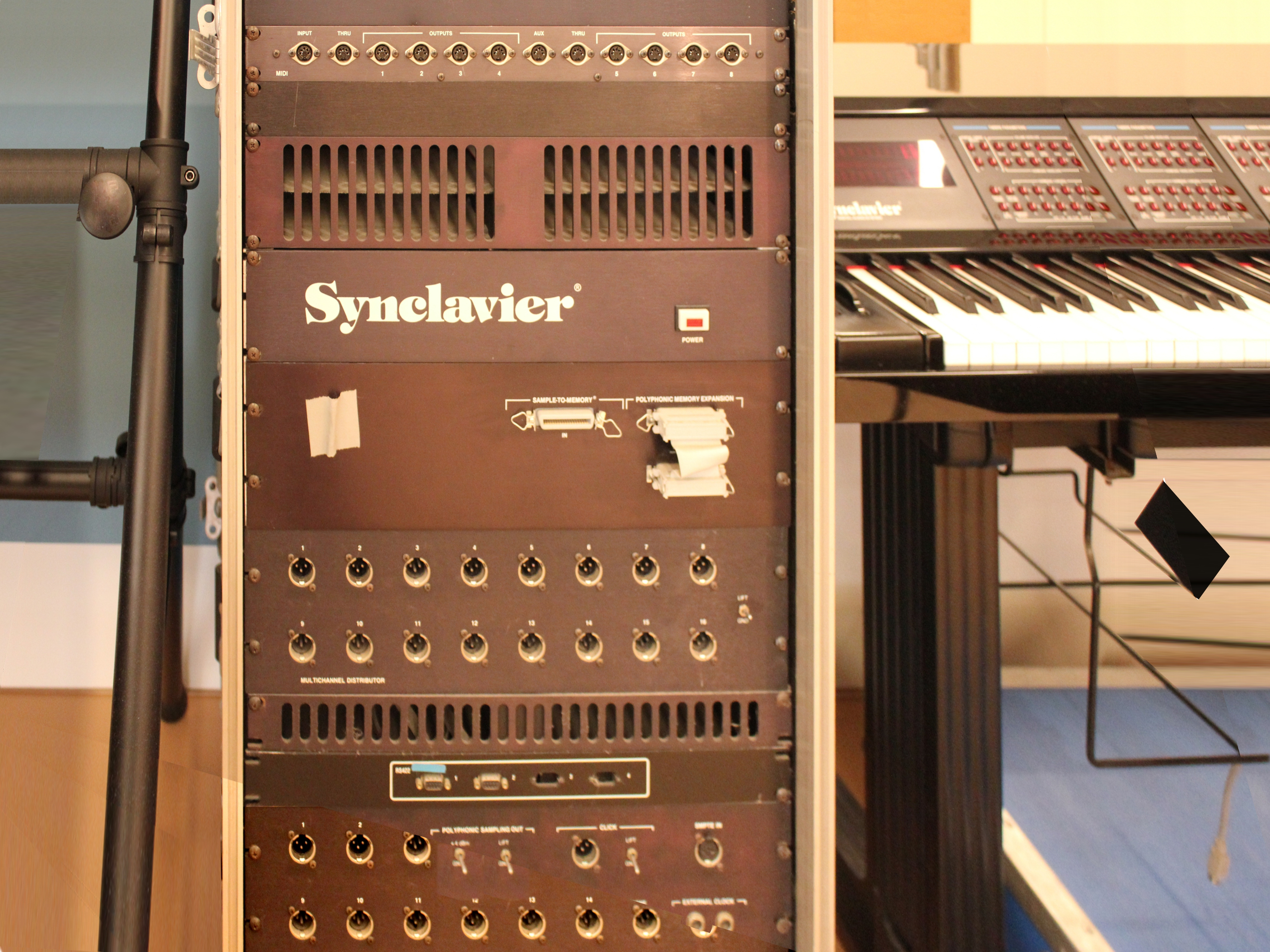 New England Digital Synclavier PSMT exhibited at Musical Instrument Museum (Phoenix) (MIM PHX) Note: Bottom panel of rack is a extrapolated result and not yet accurate. For accurate panel design, please refer other photographs. (For example: MATRIXSYNTH - Synclavier PSMT, etc)